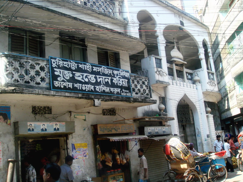 Churihatta Mosque of Old Dhaka.